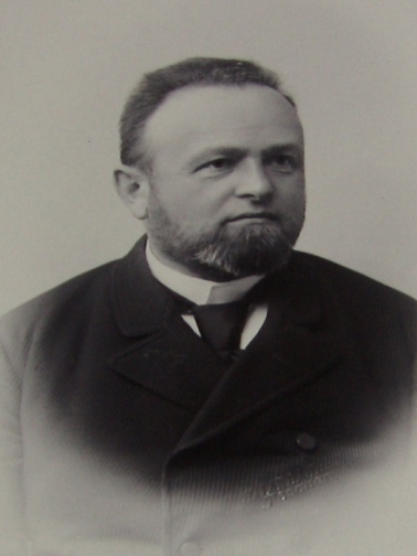 Franciszek Michejda (1848-1921), Polish Luhteran Pastor